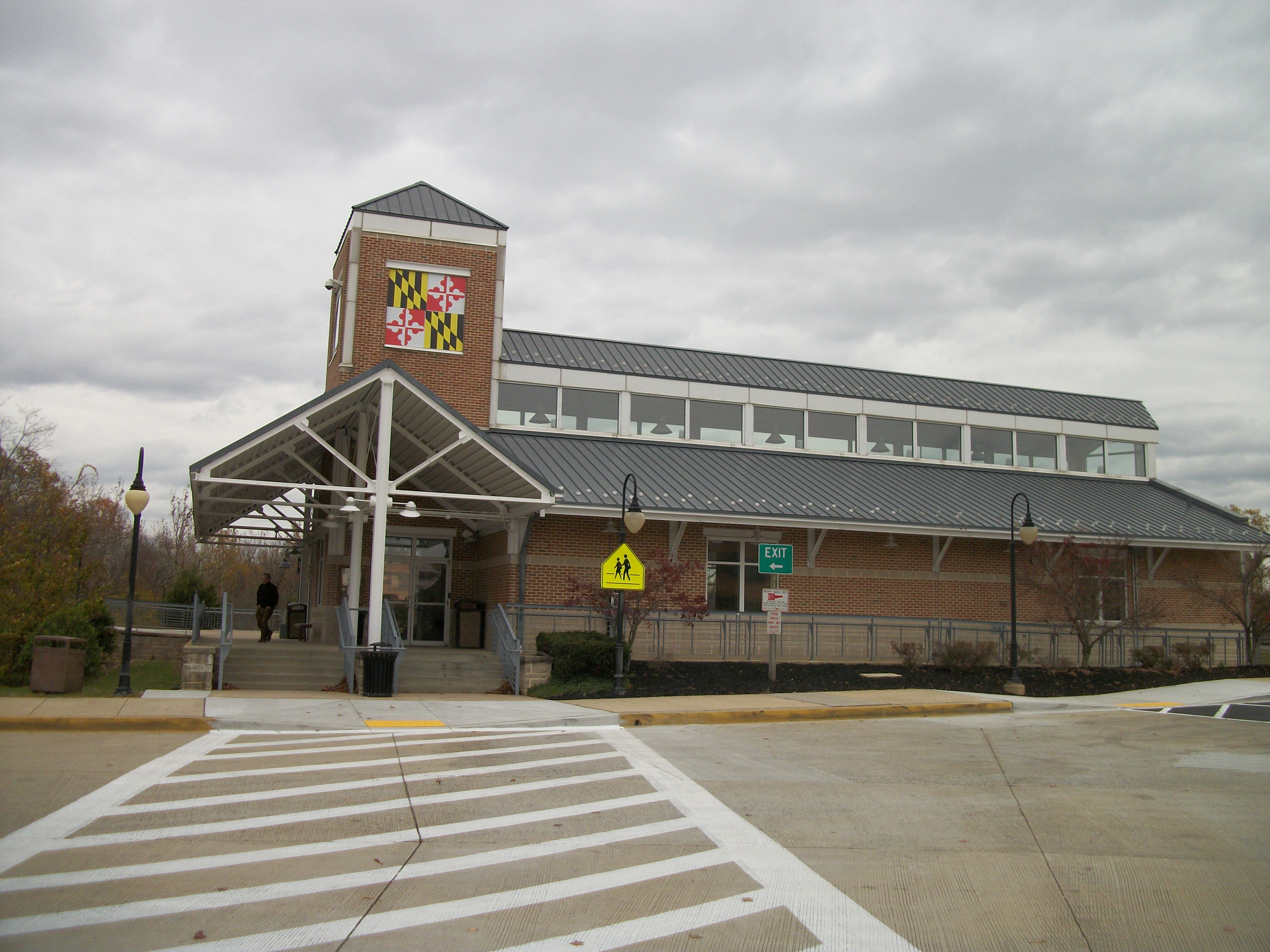 The Dorsey (MARC station) as seen from the parking lot off of Maryland Route 100.